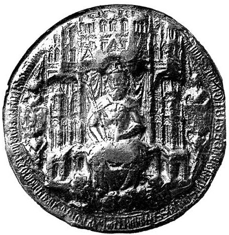 Seal of Dabiša, King of Bosnia (26 April 1395) Srpskohrvatski / српскохрватски: Печат босанског краља Дабише (26. април 1395. године)